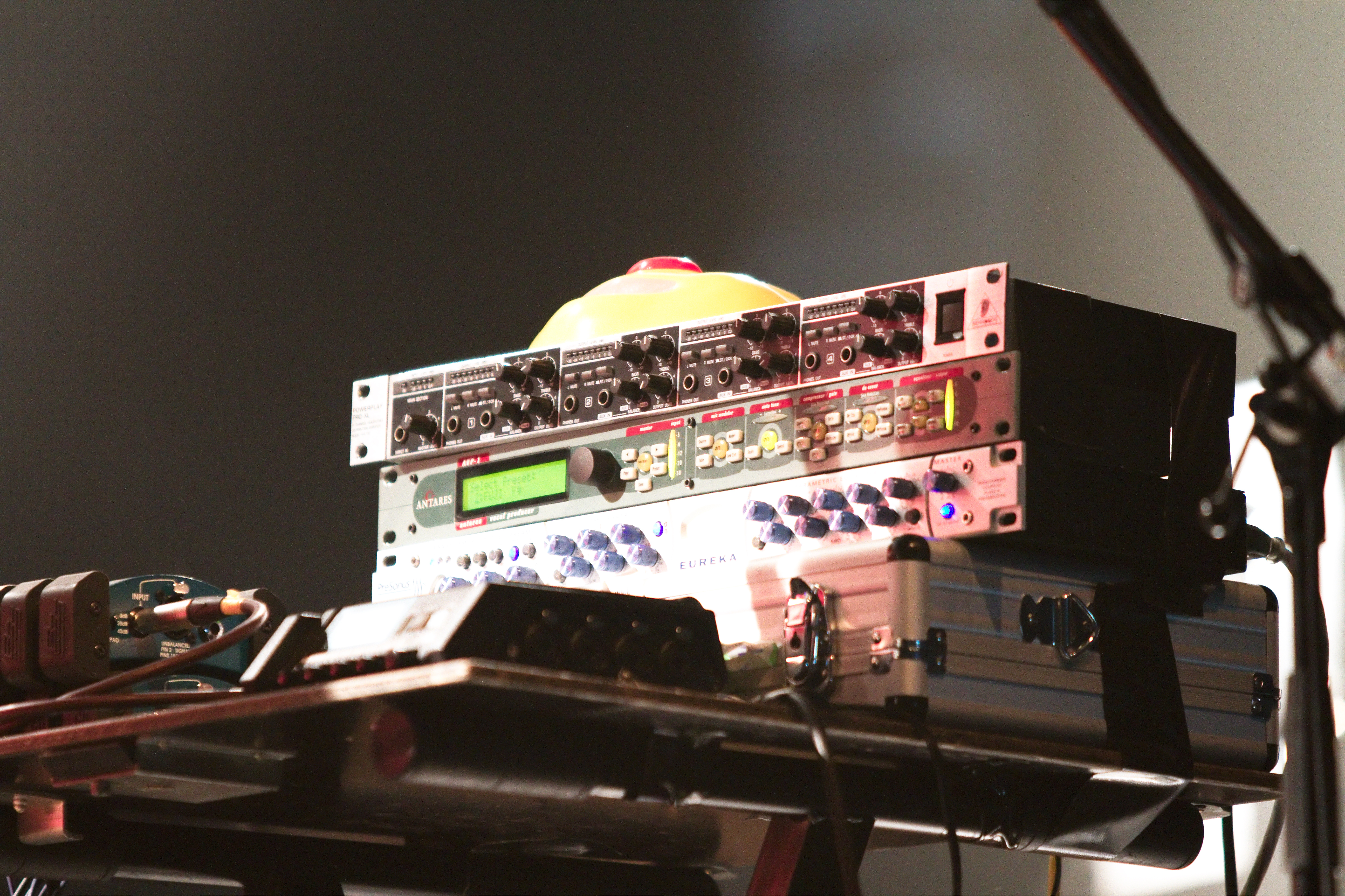 Root Thumm live at Japan Expo 2010 (Paris, France).